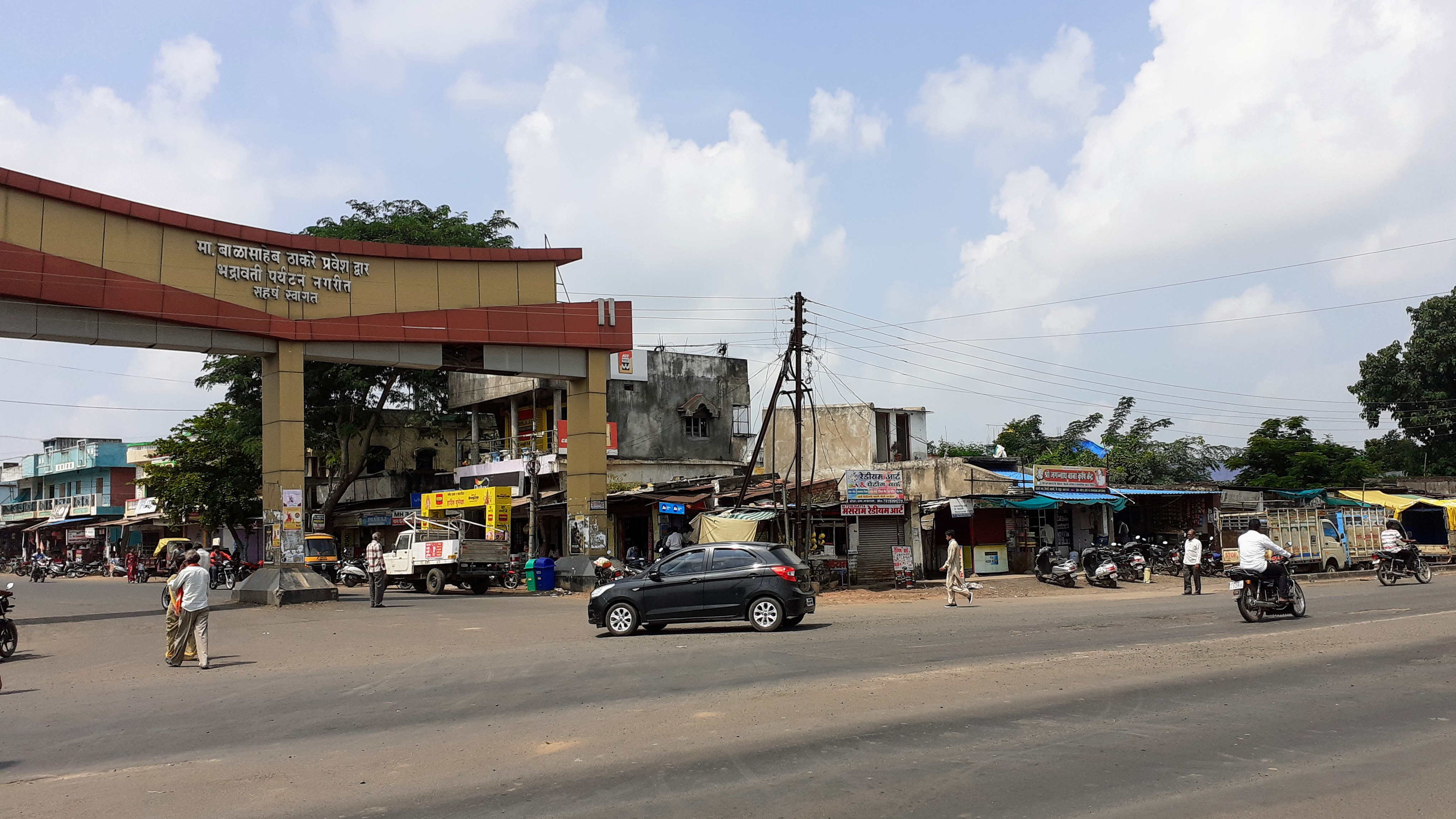 Main road Bhadravati